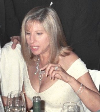 1995 Emmy Awards NOTE: Permission granted to copy, publish, broadcast or post any of my photos, but please credit "photo by Alan Light" if you can. Thanks. Scanned from the original 35MM film negative.